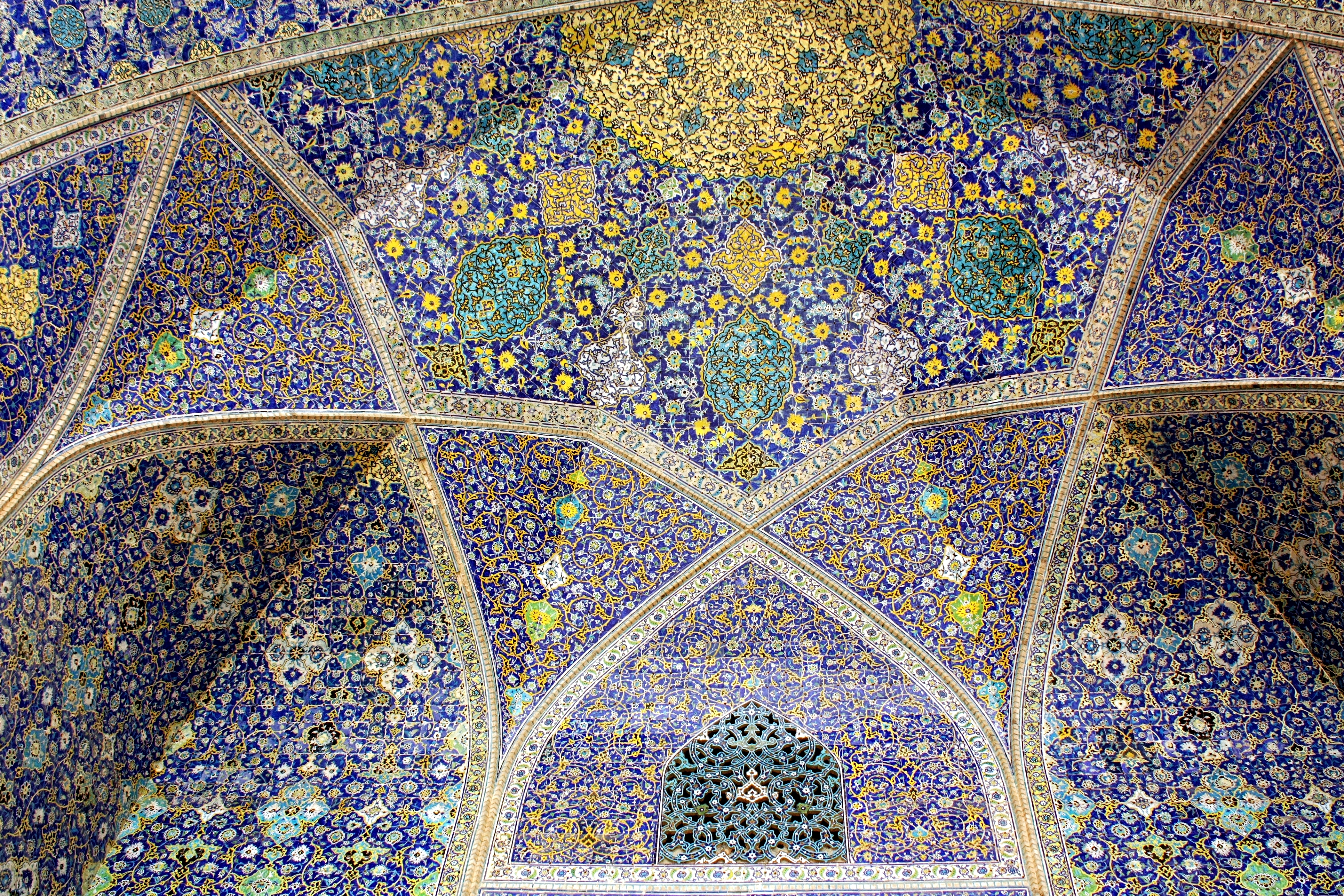 Shah Mosque Isfahan